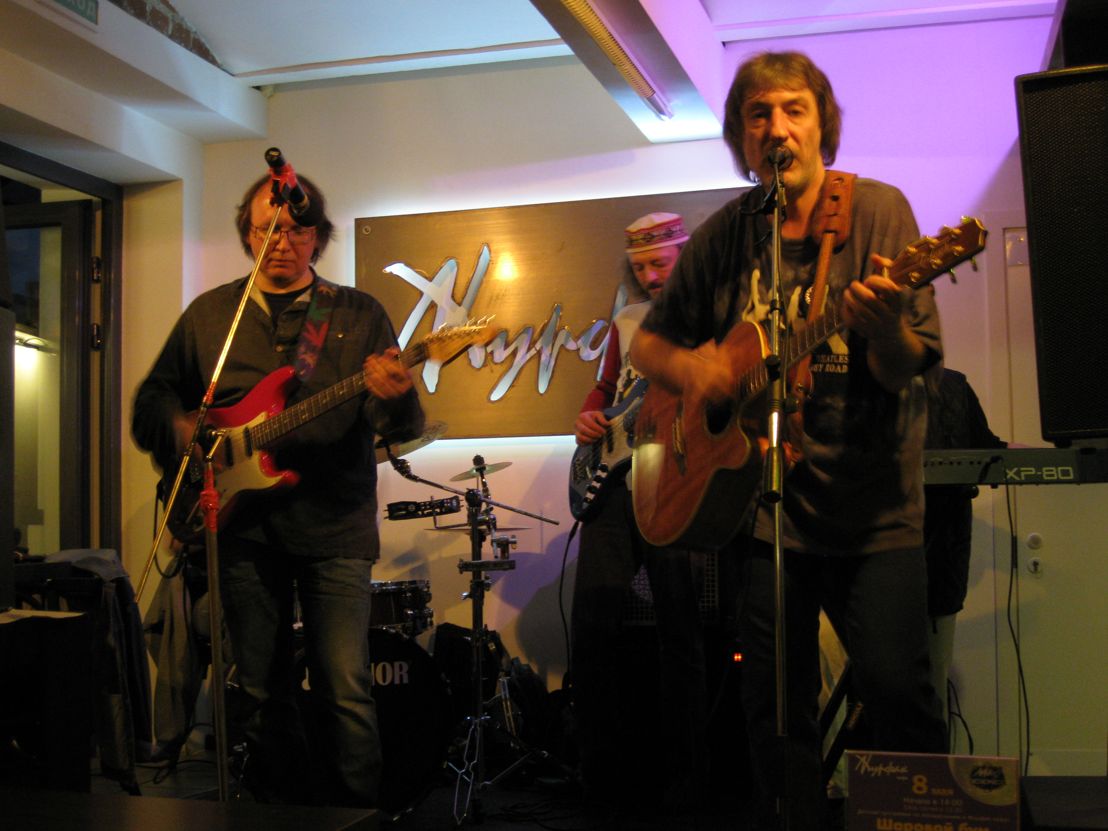 Optimalniy Variant in JurFak